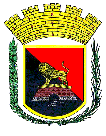 Coat of Arms (Shield, Escudo) of the Municipality of Ponce, Puerto Rico